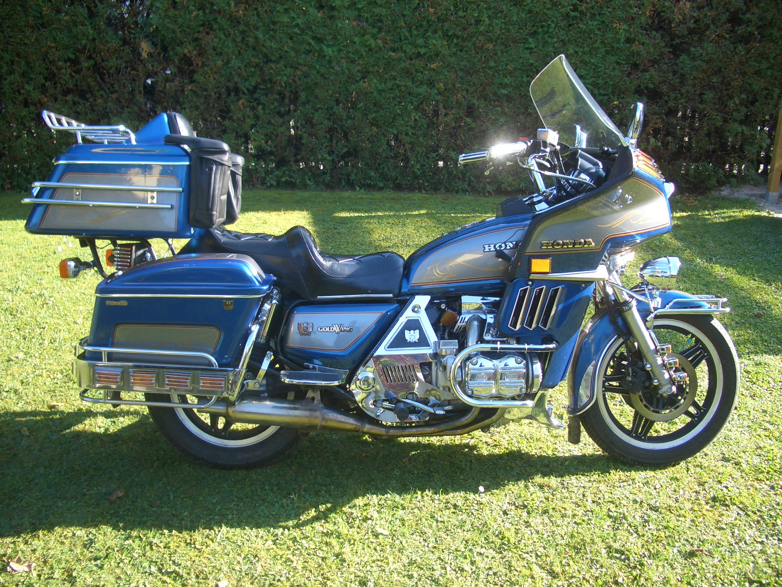 Motorcycle Honda SC02, Goldwing GL 1100, Fulldresser hubbaz